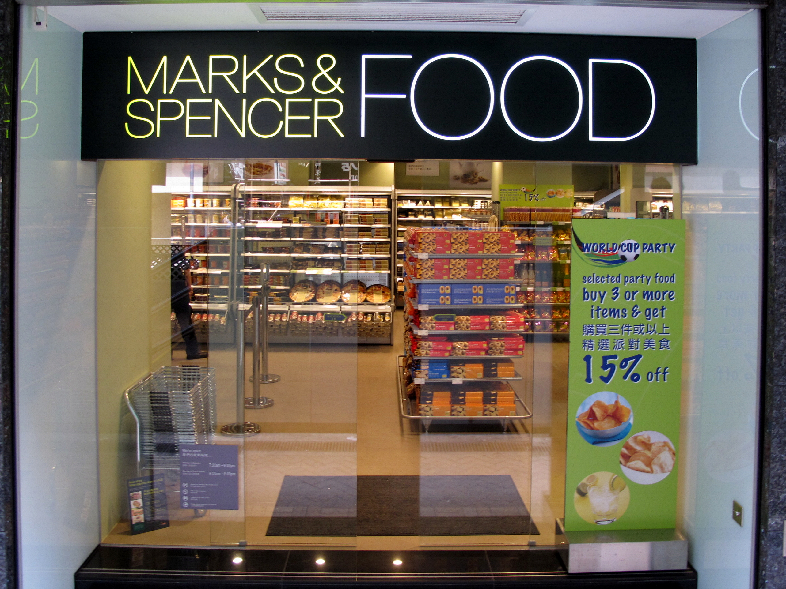 Marks and Spencer Food Store in Hong Kong